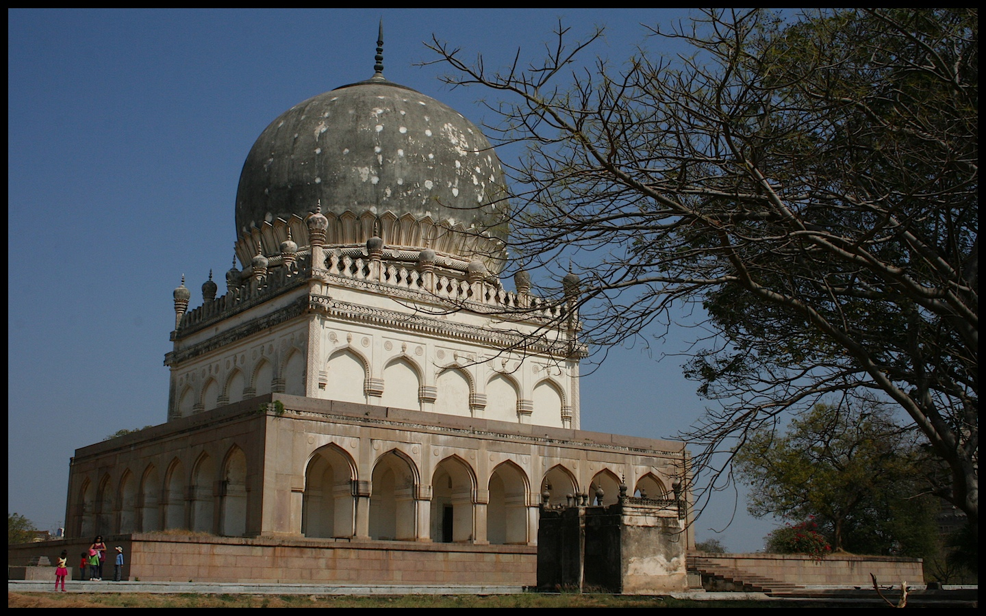 Tomb of Hayath Bakshi Begumm (Maa Saahaba), after whom Masab Tank is named Qutub Shahi Tombs, Ibrahim Bagh, Hyderabad. Built in the 16th and 17th centuries